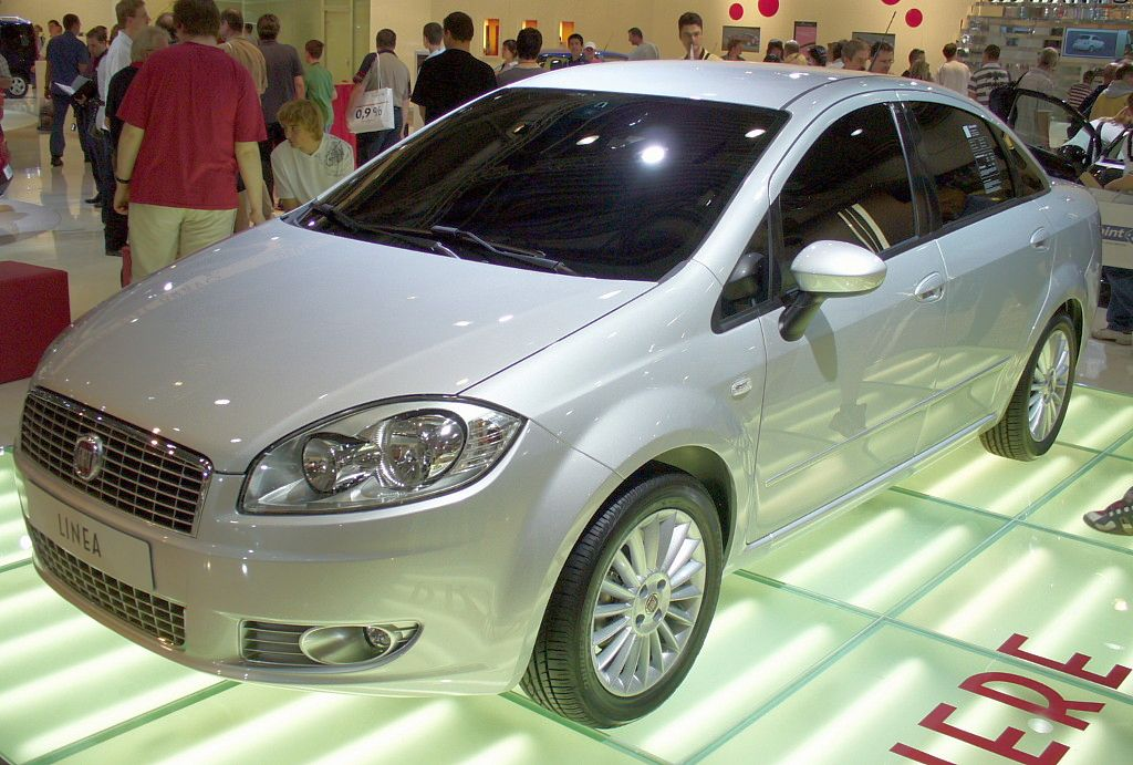 Fiat Linea, Italian car produced in Tofas, Turkey.